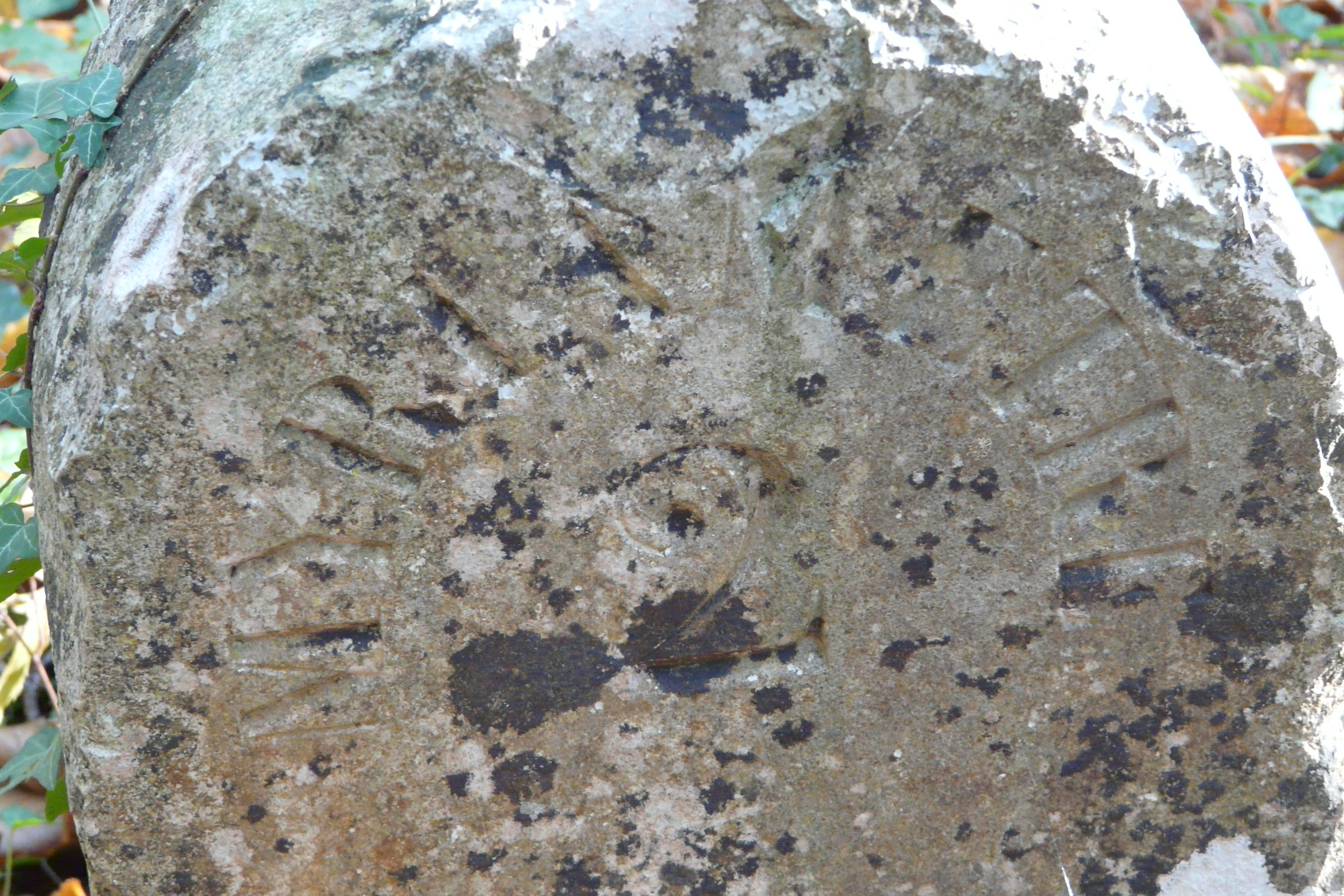 Closeup of a 'myriametric' milestone on the edge of the former canal de Briare, south of Rogny-les-Sept-Ecluses, France